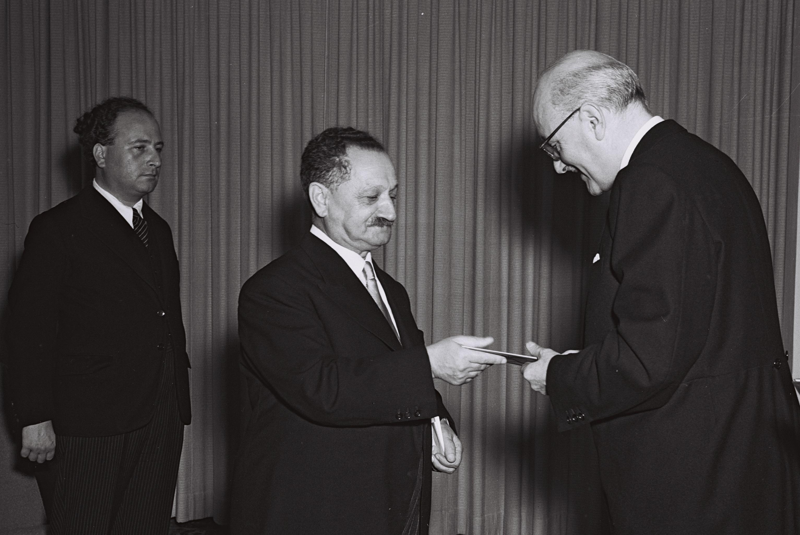 French amb. Edouard Guyon presents his credentials to acting president Yosef Sprinzak, at Hakirya, Tel Aviv.